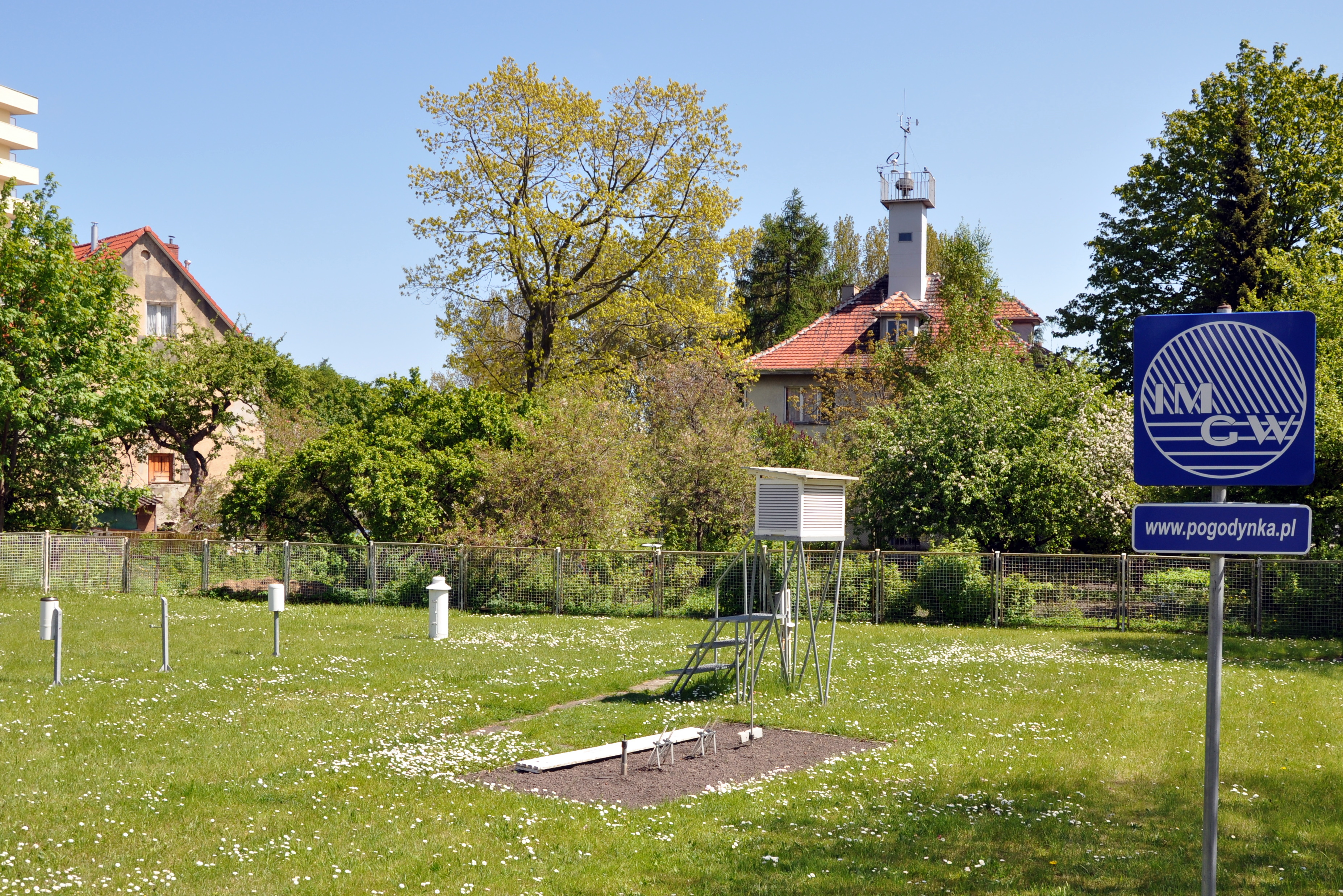 Weather station of IMGW in Kołobrzeg, Poland